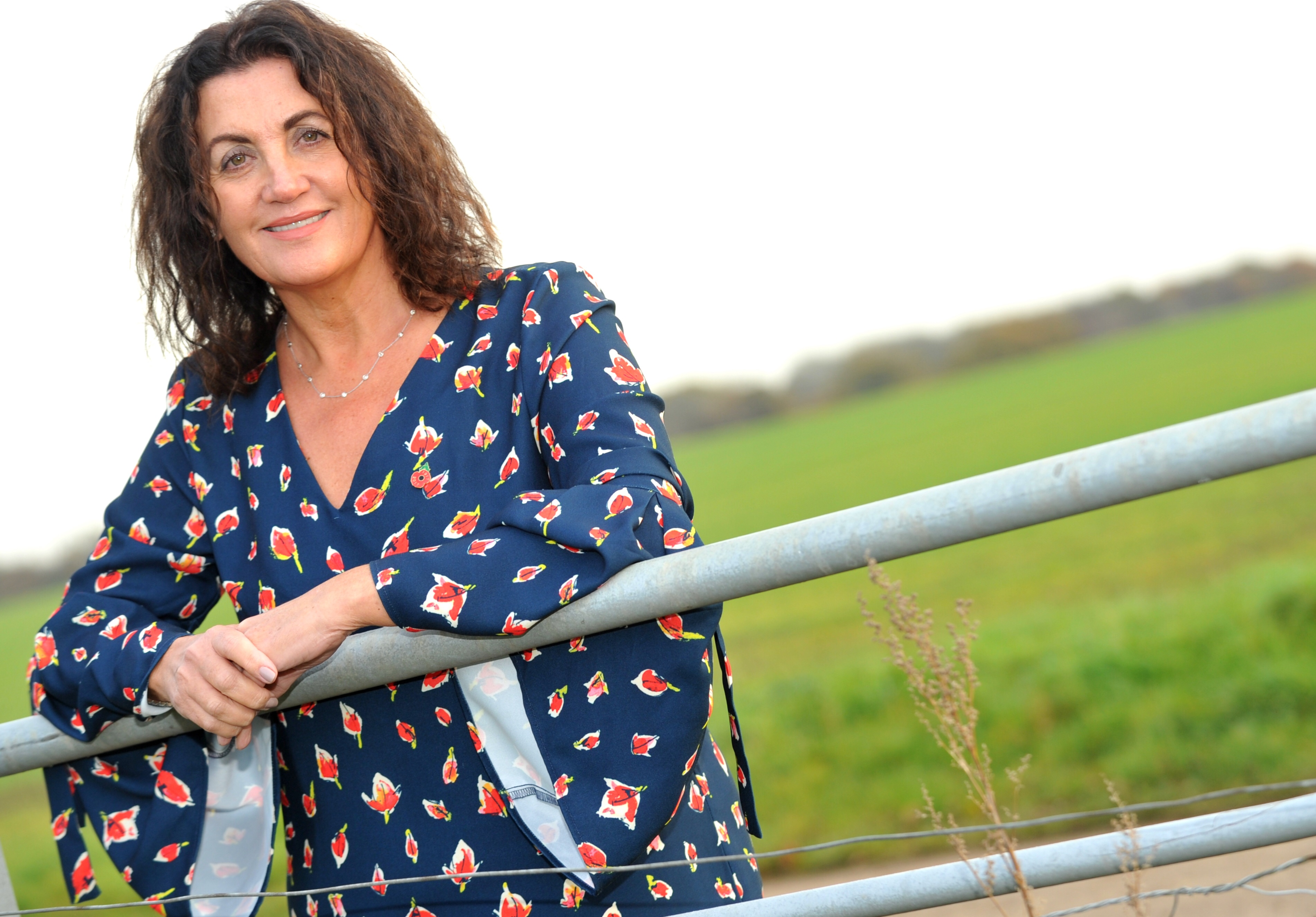 Charity campaigner and experienced fundraiser Gina Long MBE